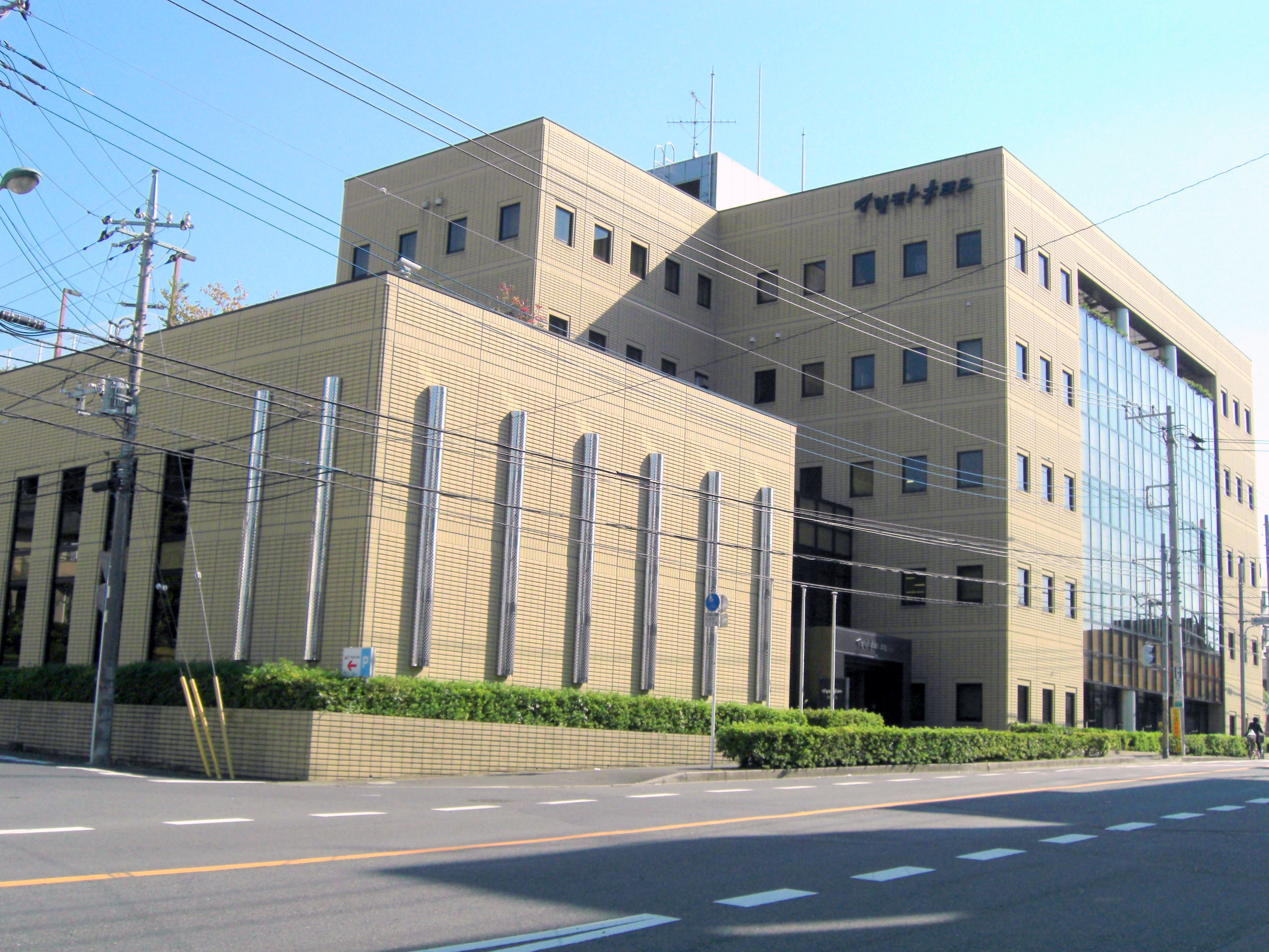 Matsumotokiyoshi Holdings head office